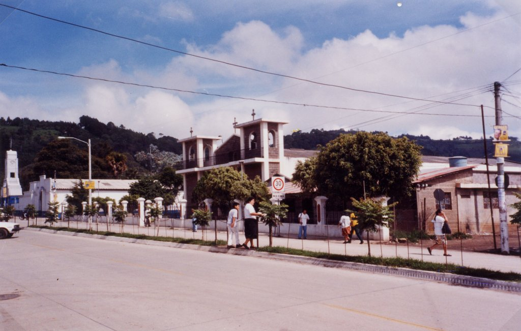 Main street of San José Pinula, Guatemala